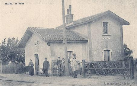 Bezing station in 1900